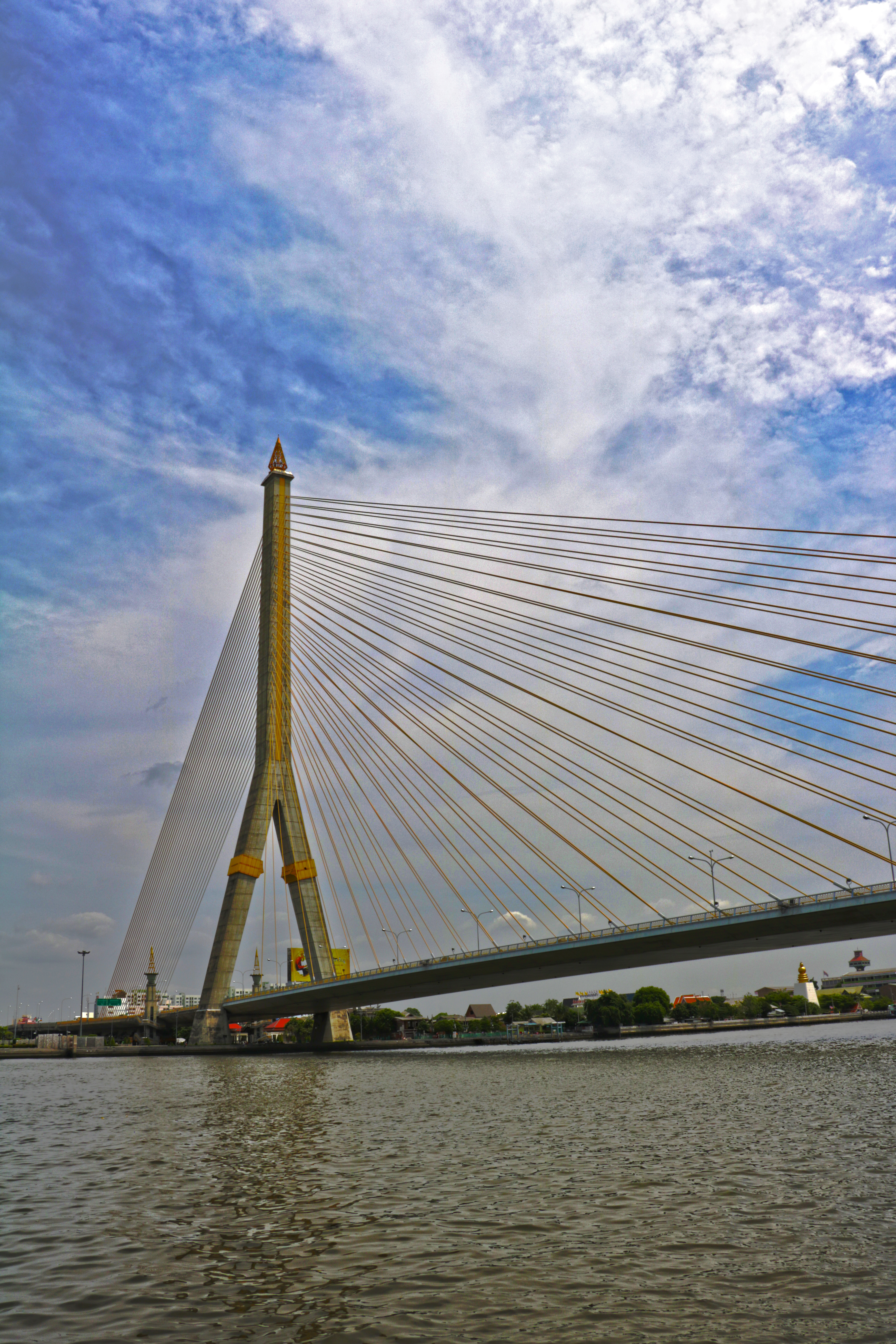 Rama 8 Bridge is the asymmetrical Cable-stayed bridge along Chao Praya River, the bridge was opened in 2002.